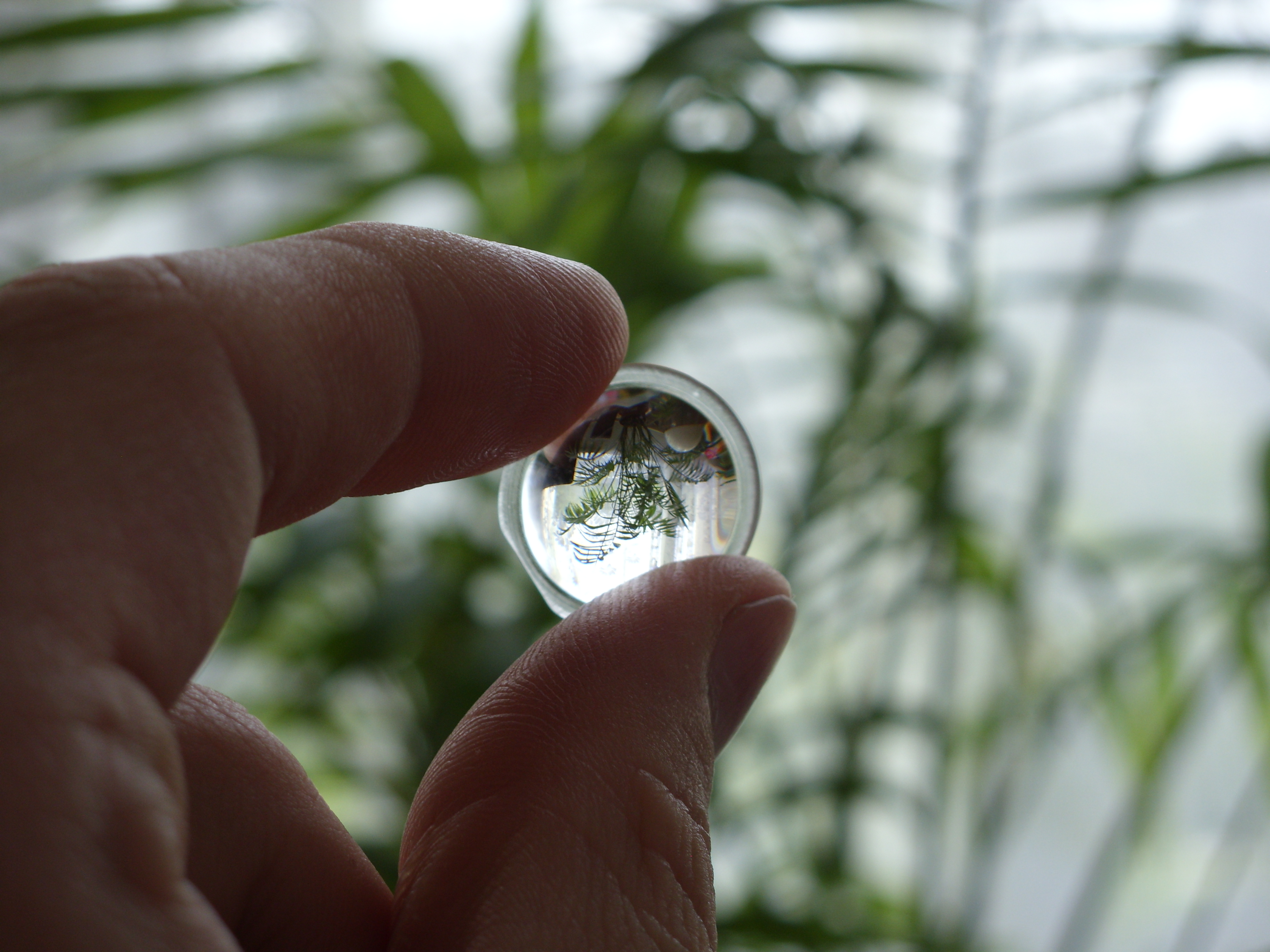 A biconvex lens. The picture created by it of distant objects is inverted and smaller.